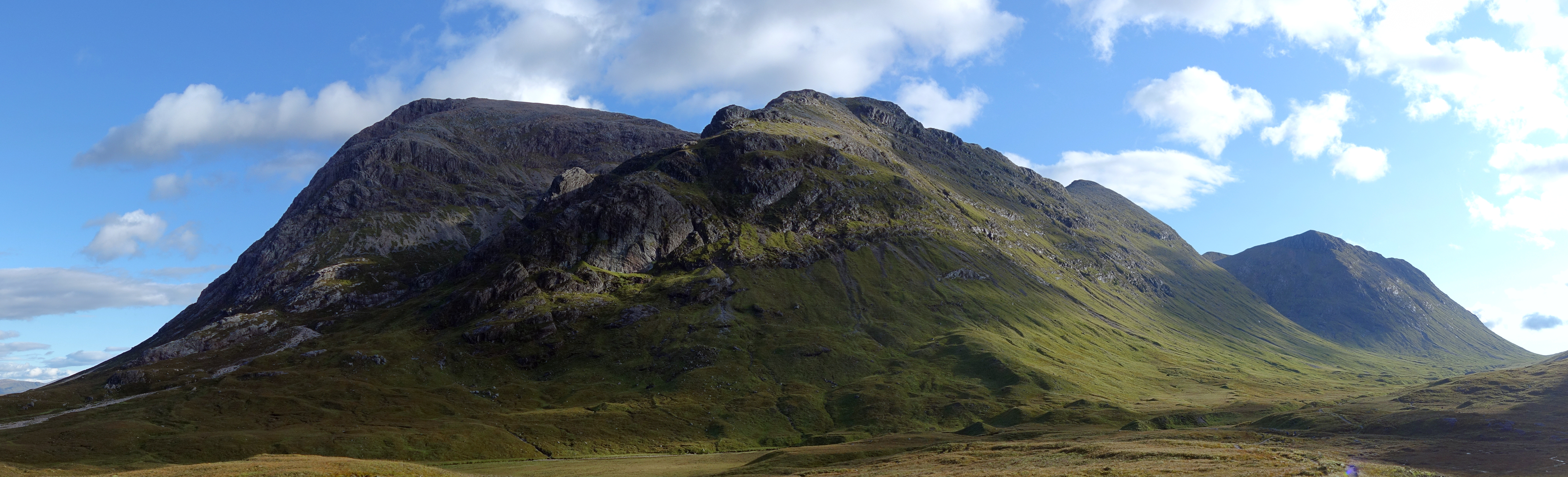 The mountain Buachaille Etive Mòr, which lies between Glen Etive and Glen Coe in the Scottish highlands, as seen from the A82. All its main peaks are visible (see file annotations for exact positions): The mountain summit, Stob Dearg, is on the left. The minor peak Stob Coire na Tulaich is prominent in the front and center. To the right of it is Stob na Doire. Further to the right, beyond a hollow, is Stob Coire Altruim. Furthest to the right, almost obscured, is Stob na Bròige.